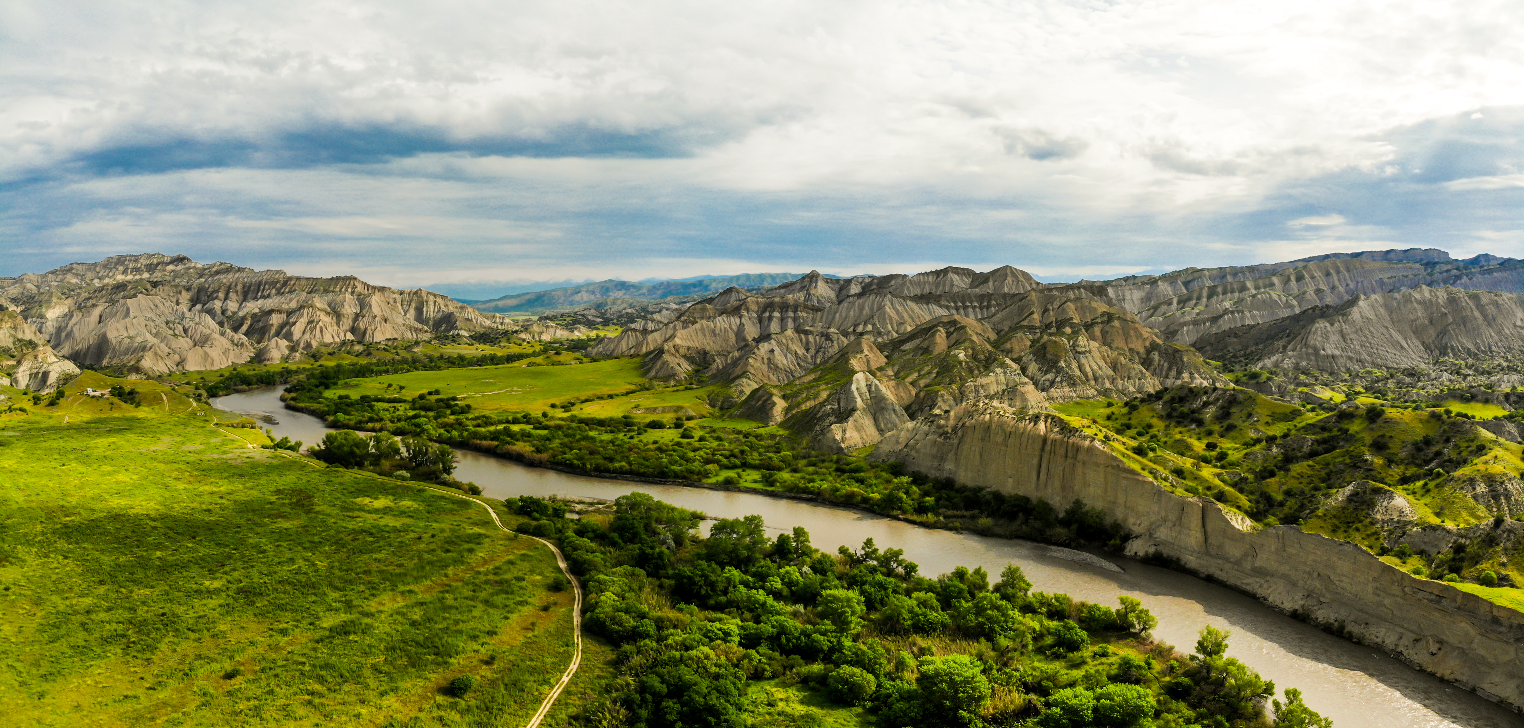 Alazani river, border between Georgia and Azerbaijan. Vashlovani National Park. Vashlovani semi-desert.